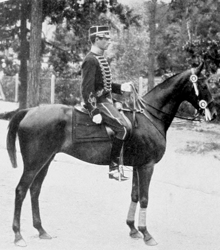 Axel Nordlander during competition at the 1912 Summer Olympics